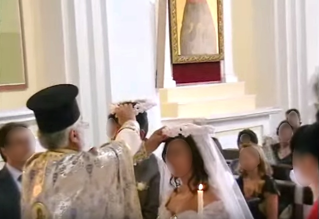 Arbëreshë wedding with exchange of wedding crowns